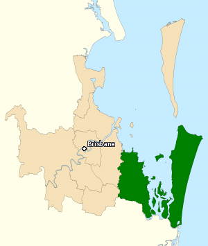 This image incorporates data that is: © Commonwealth of Australia (Australian Electoral Commission) 2009 Division of Bowman 2010